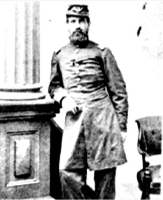 Major Moncena Dunn Moncena Dunn, 19th Regiment, Massachusetts Infantry